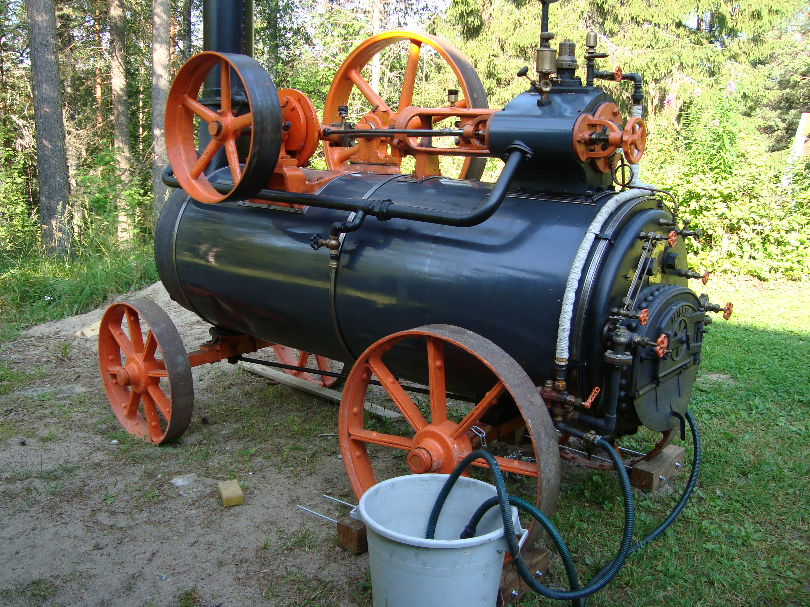 Portable steam engine built by Björneborg Mekaniska Werkstads Ab in Finland in 1913. The engine is fully restored and in working order.